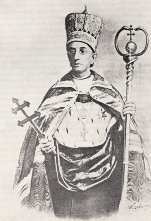 Sylvester Sembratovich, Metropolitan of Lviv